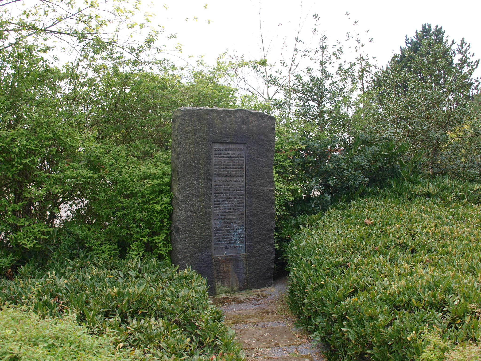 Memorial stone for members of Belgian resistance group "De Zwarte Hand" and Luxembourgian hostages who were executed in 1943/44 in